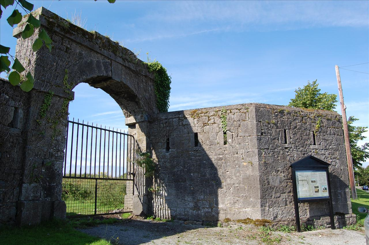 The Military Barracks, Crinkle (Birr - co Offaly)